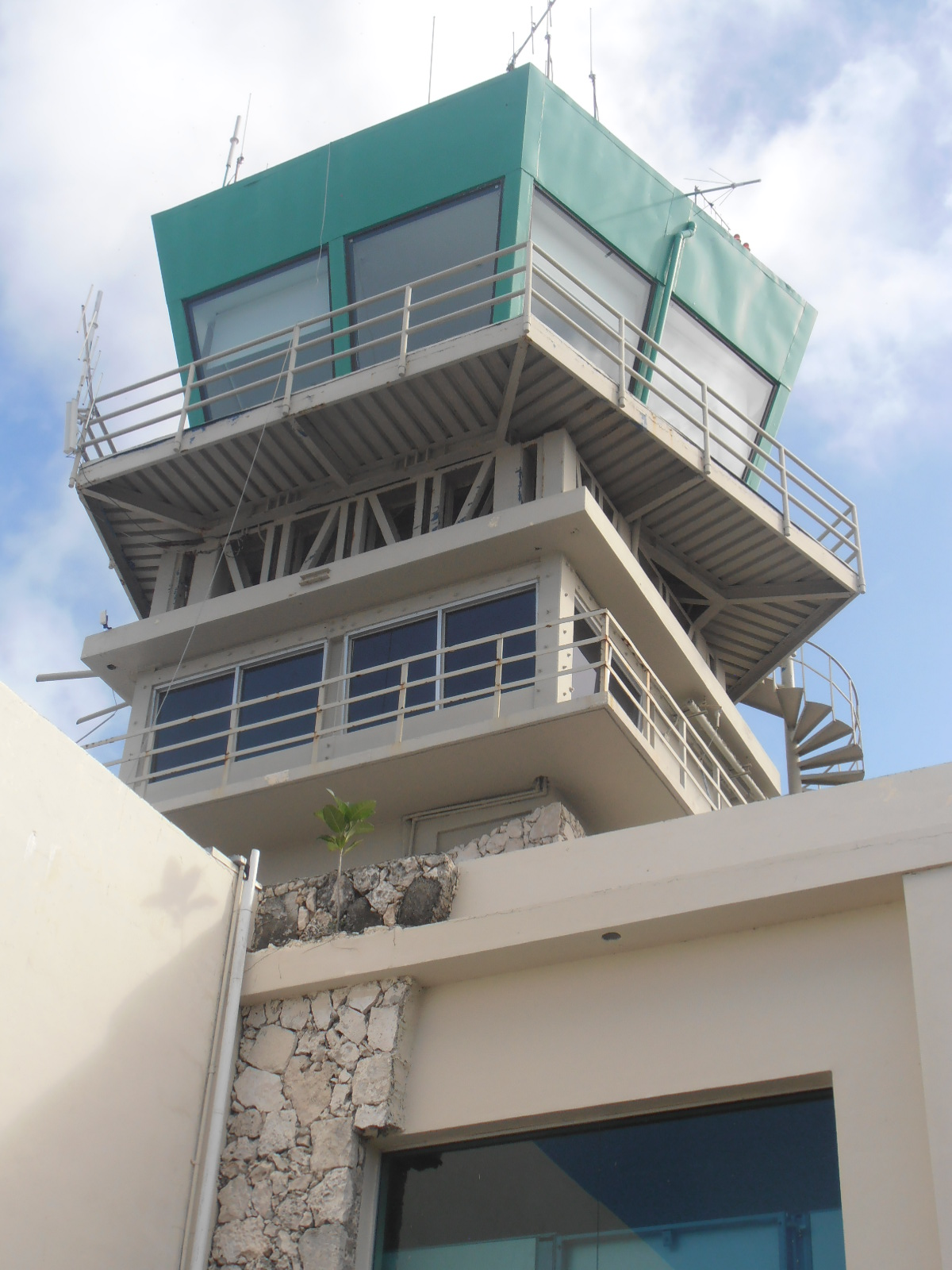 Tower of Punta Cana airport